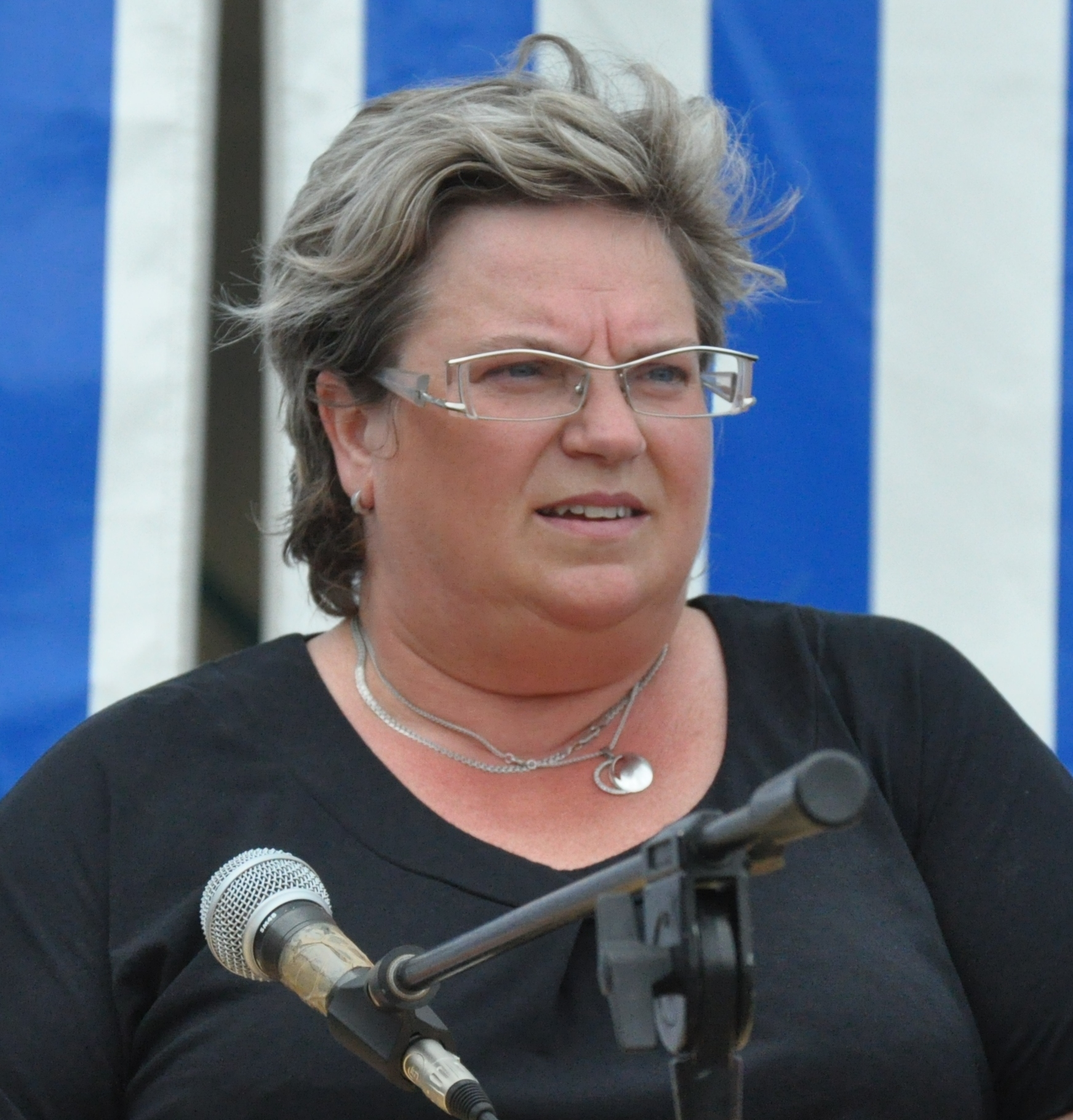 Jaana Laitinen-Pesola, chairman of the Union of Health and Social Care Professionals, at SuomiAreena 2010 in Pori.